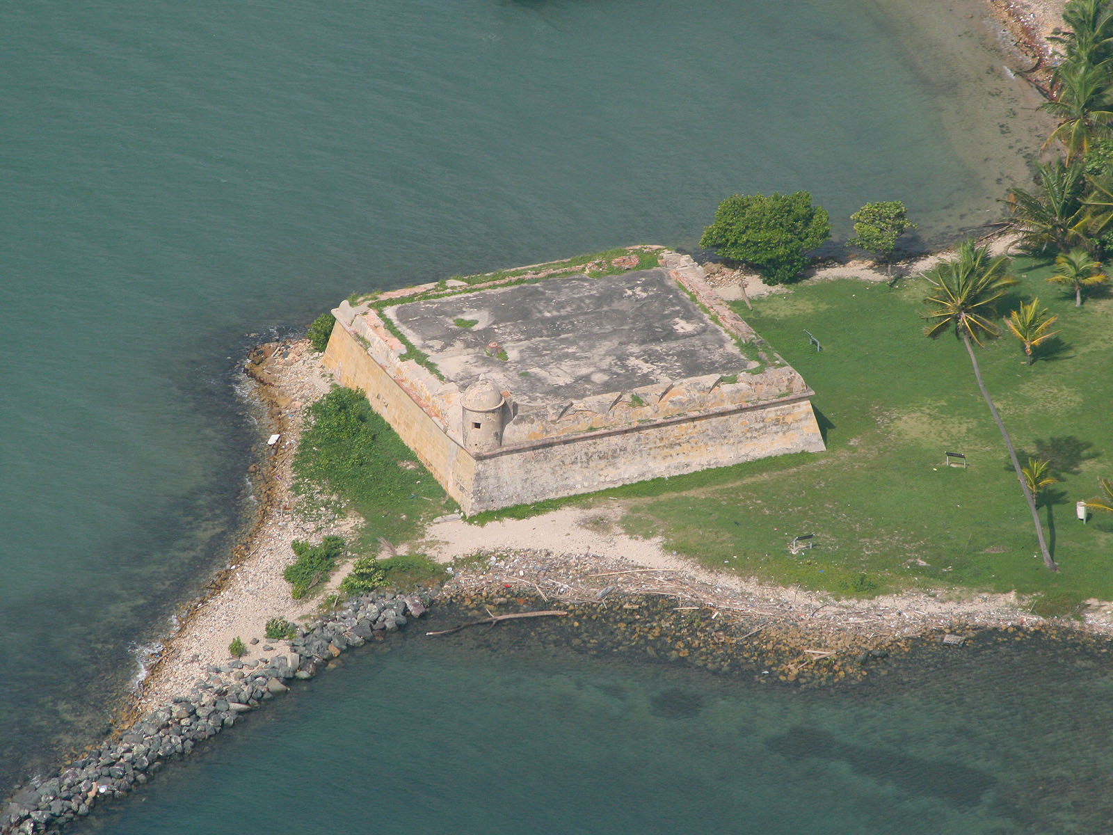 Fort Saint John of the Cross - El Cañuelo across the bay from old San Juan, Puerto Rico